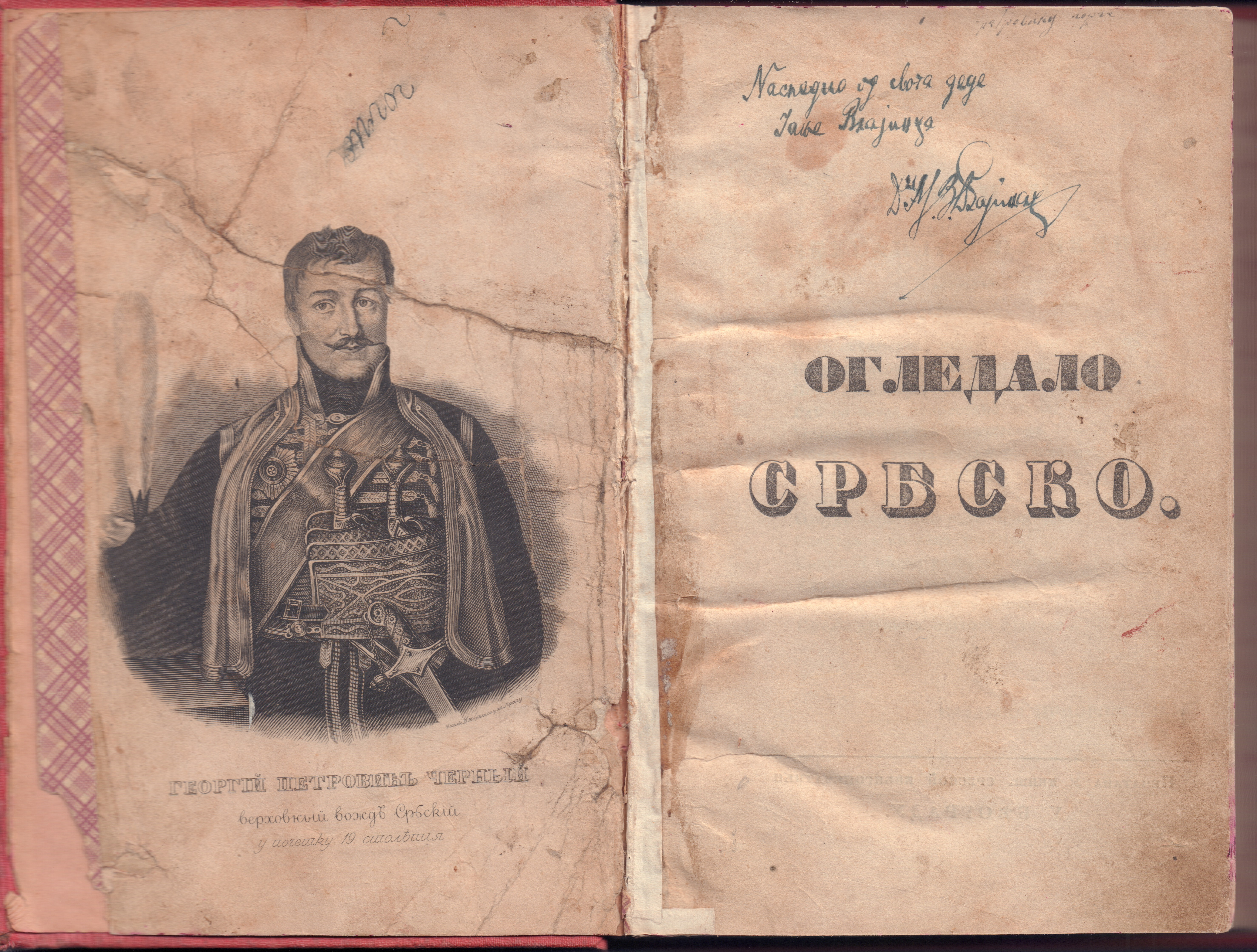 Book Ogledalo Srbsko